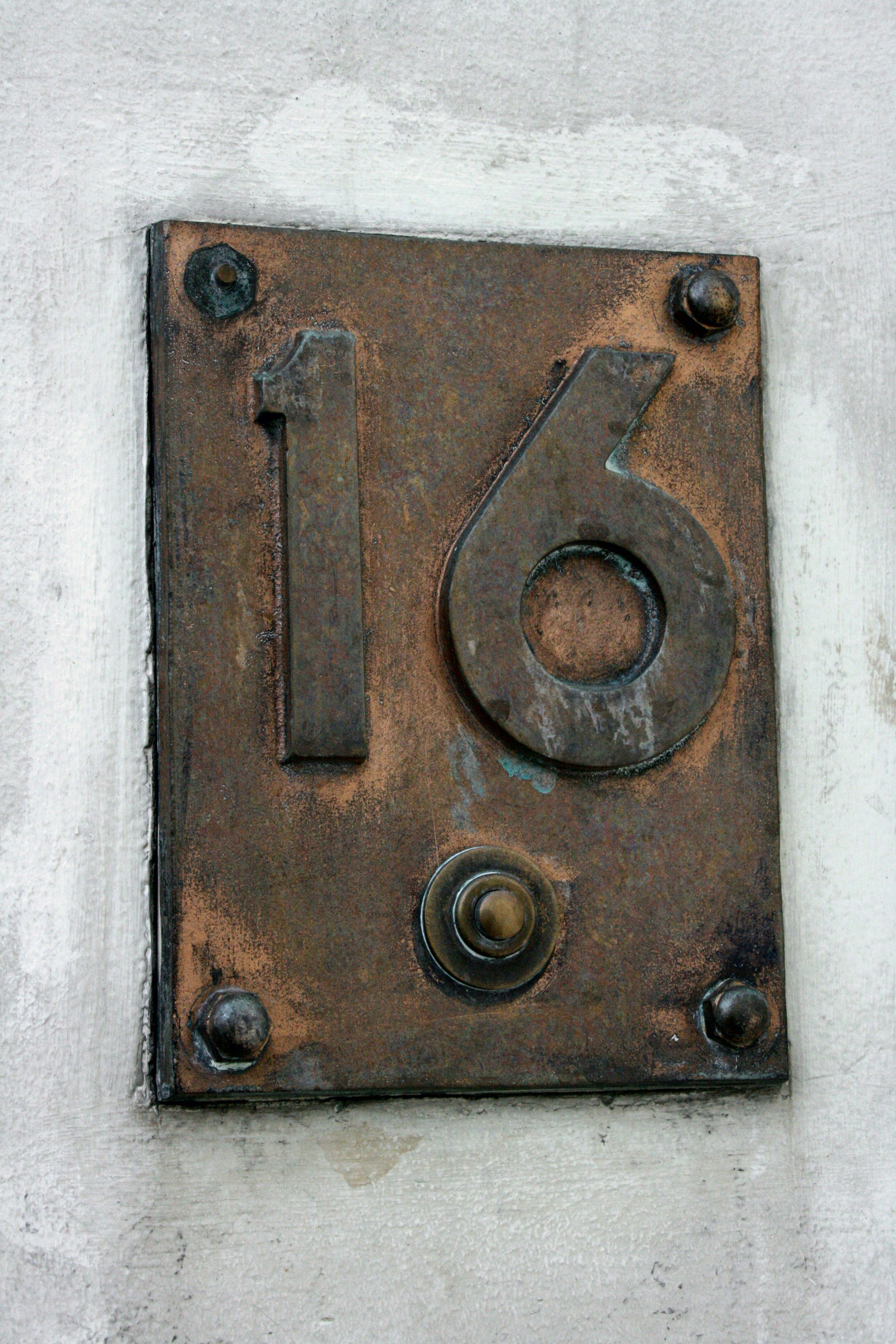 16 rue de la Loi, Brussels. Office of the Belgian prime minister. Doorbell